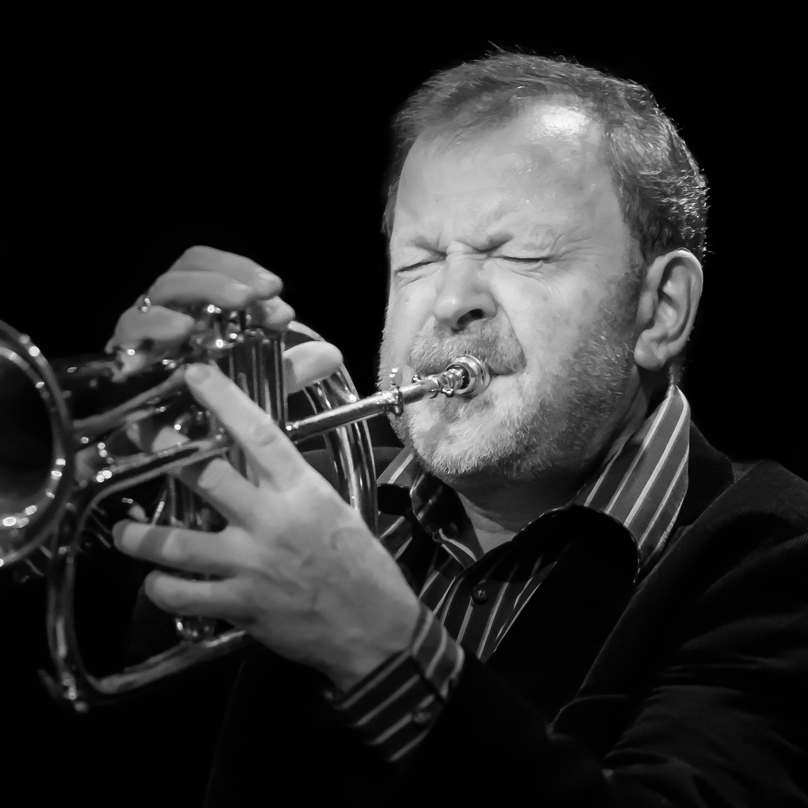 Jazz trumpeter Klaus Osterloh on stage during concert Trumpet Summit feat. Klaus Osterloh at Pantheon Casino, Bonn.